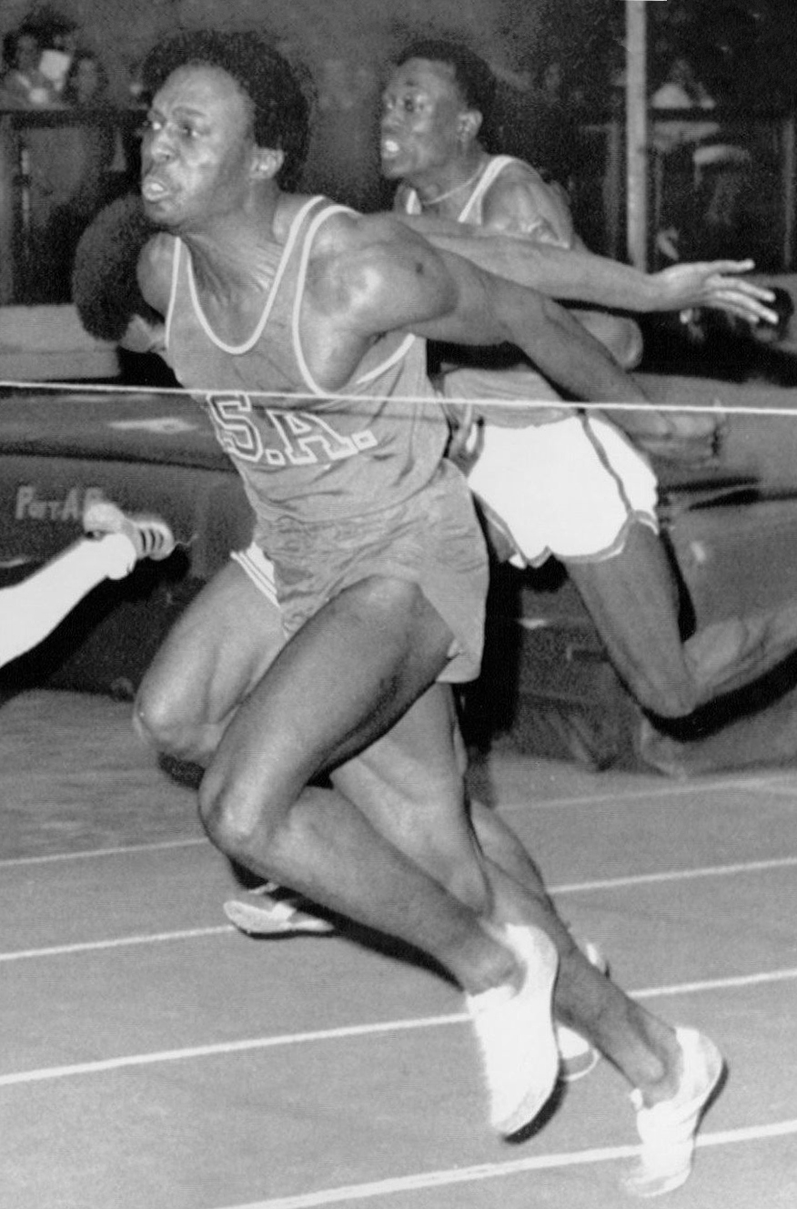 1974 AP Wire Photo sprinter Herb Washington wins Wanamaker Millrose Games